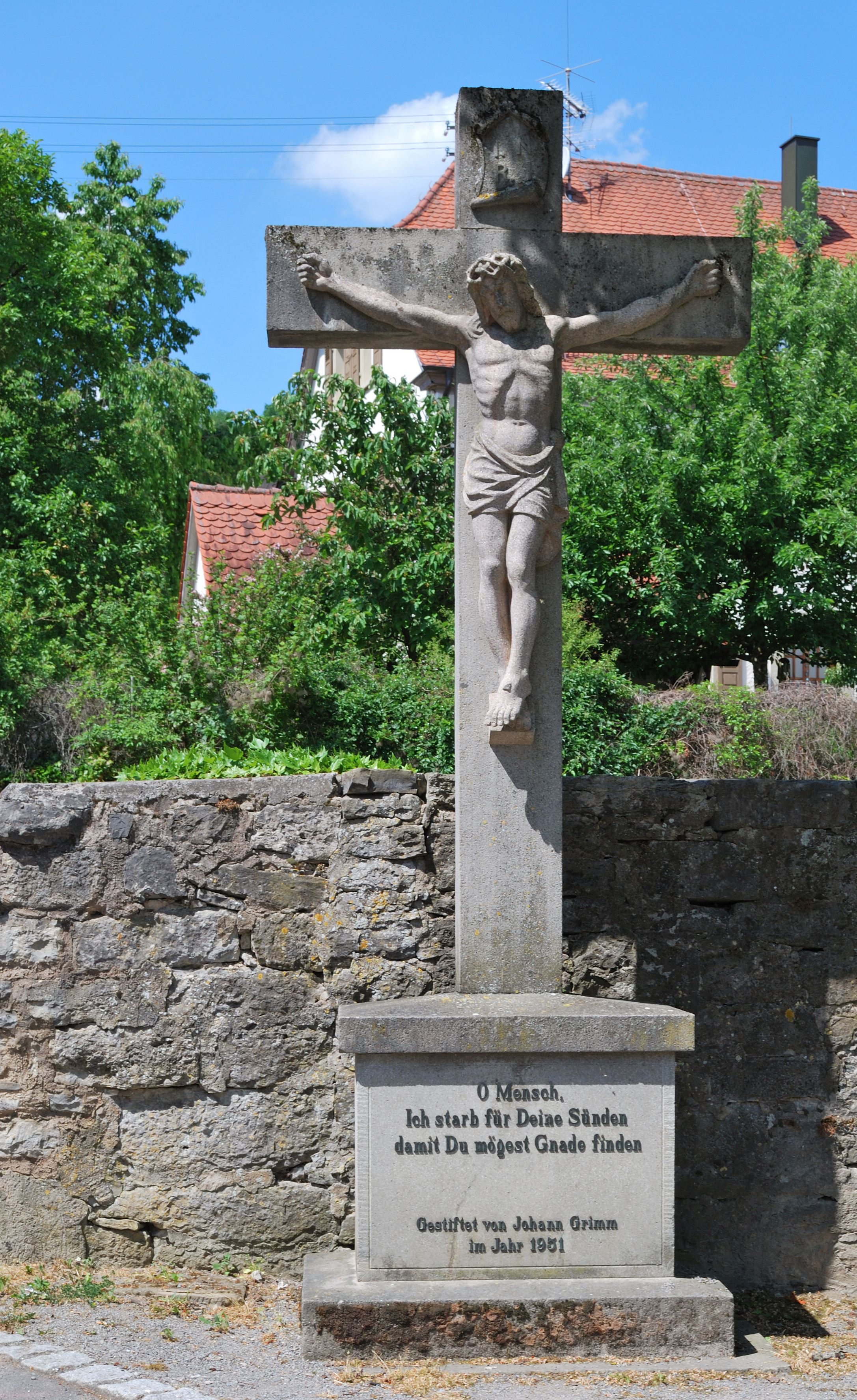 A wayside cross in Ailringen in Southern Germany.